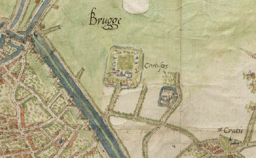 Detail of Jacob van Deventer's map of sixteenth-century Bruges, zoomed in on the Carthusian cloister the Genadedal (Val-de-Grâce) outside the city walls.